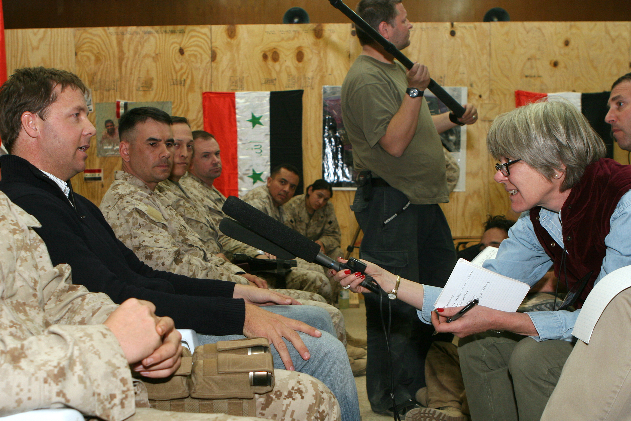 John Kael Weston, U.S. Department of State representative, takes a question during a pre-election press conference held in Fallujah, Iraq Dec. 14.